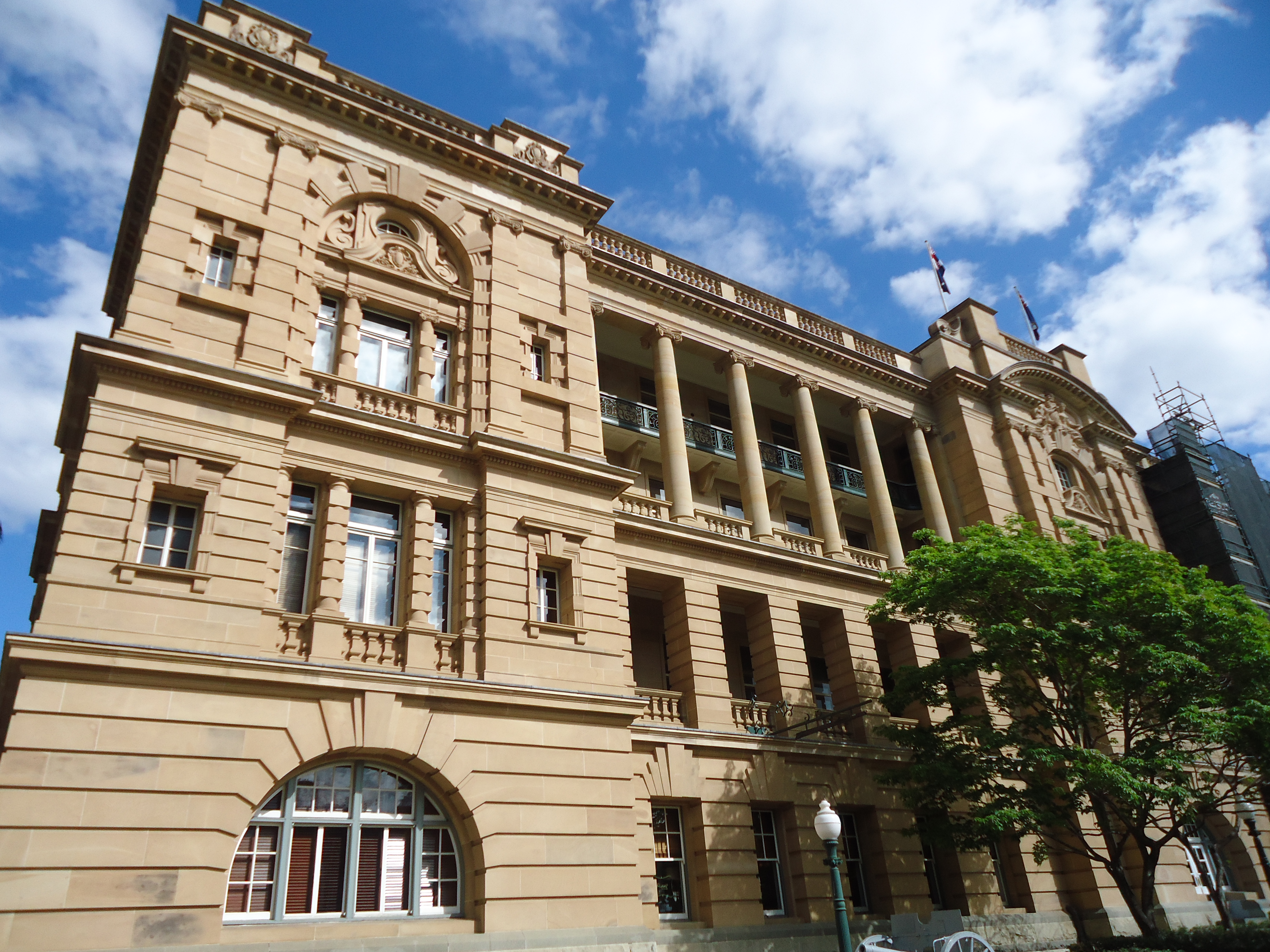 Architect: T. Pye